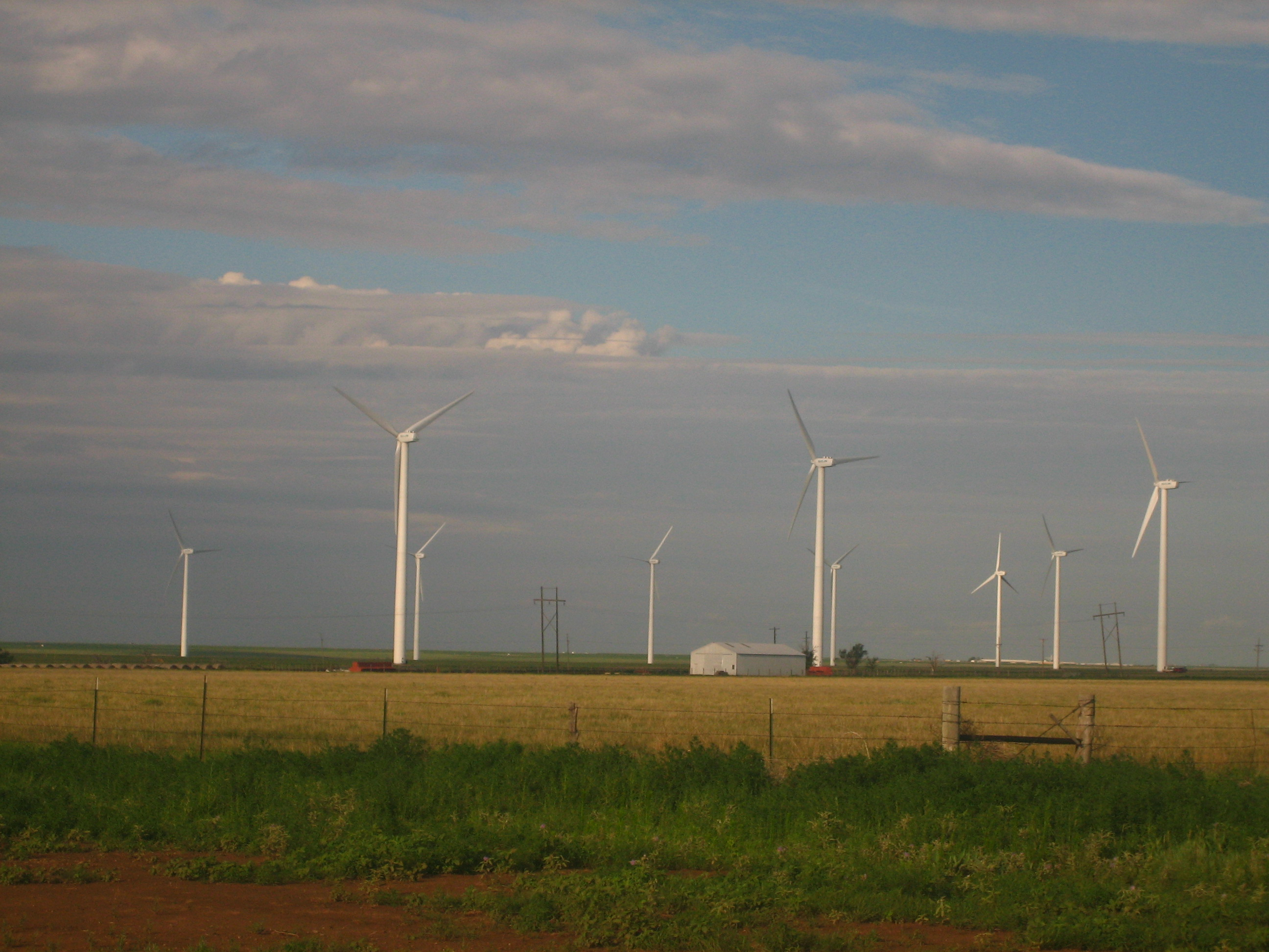 Windmills south of Dumas, TX